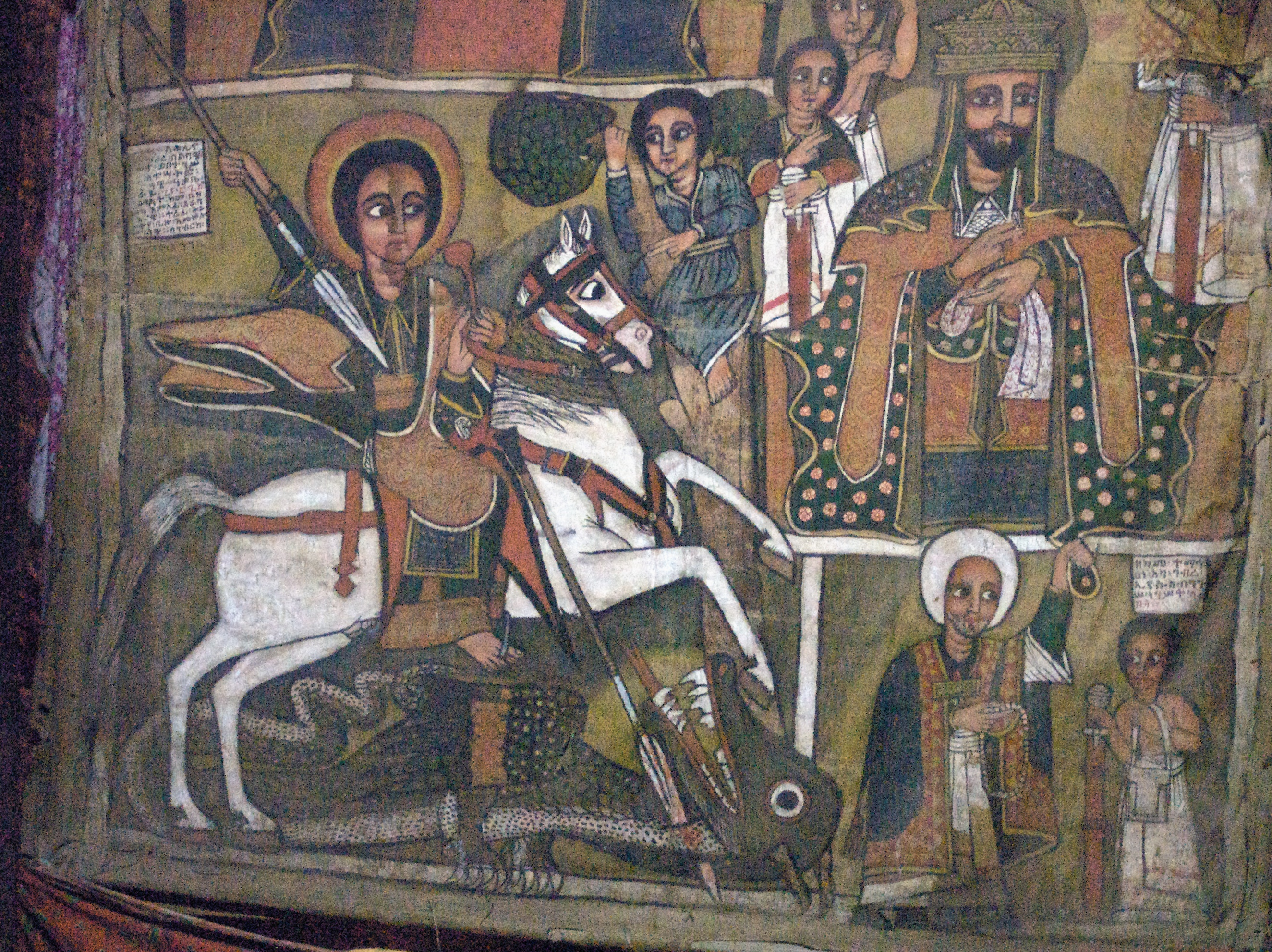 St. George is Ethiopia's patron saint. The person in the tree directly in front of and above the horse's head is said to personify Ethiopia. As usual, the horse is looking very perky. I saw variations on this image in almost every church I visited in Ethiopia. This painting is unique in the number of lances St. George is deploying against the dragon. This is one corner of a larger canvas that depicts a number of stories that are important to the Ethiopian Christian Orthodox Church. The date and provenance of painting are unknown to me.